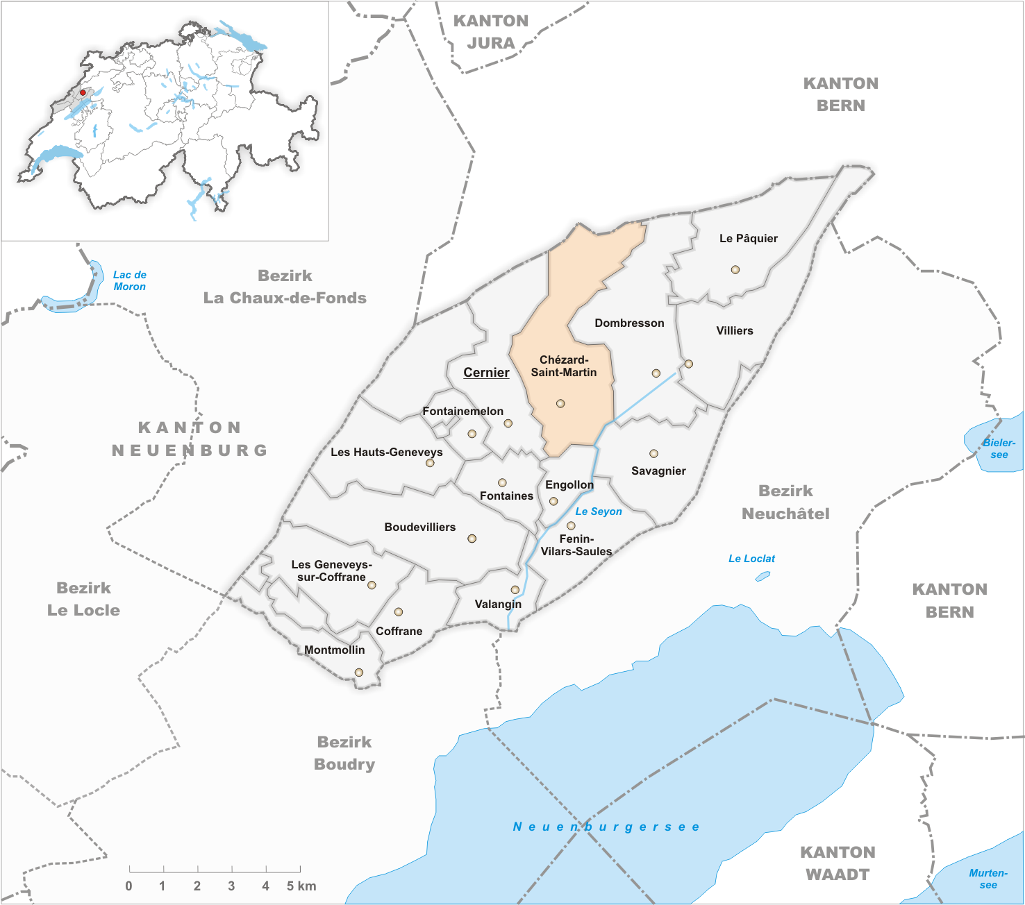 Municipality Chézard-Saint-Martin